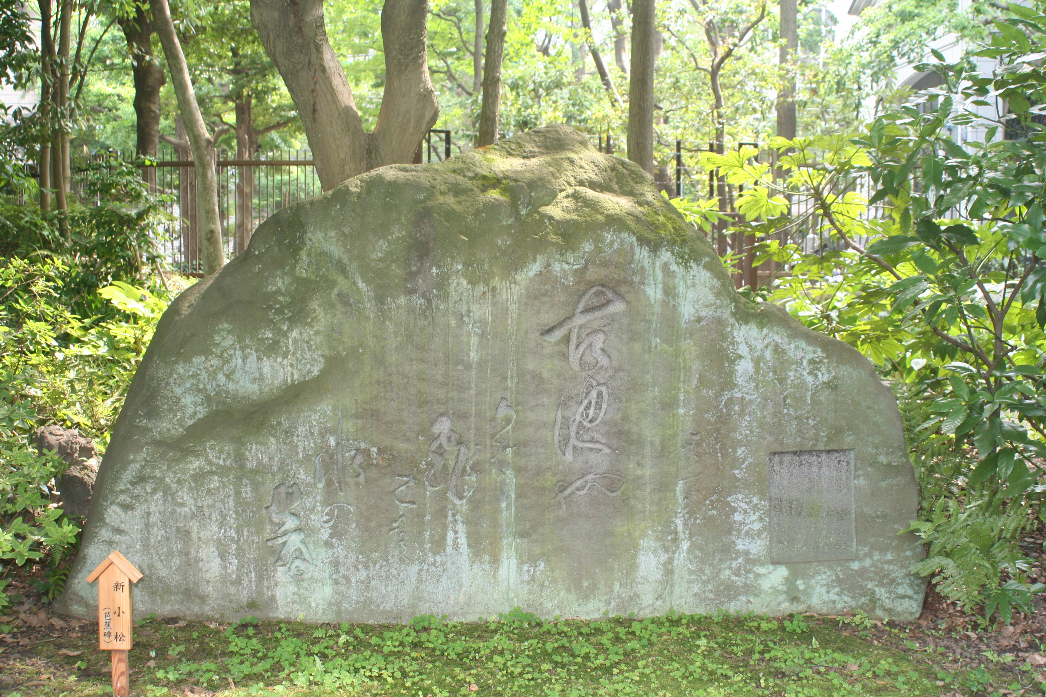 Frog Haiku Memorial for the most famous Haiku poem by Matsuo Bashō in Kiyosumi Garden, Tokyo 古池や蛙飛び込む水の音